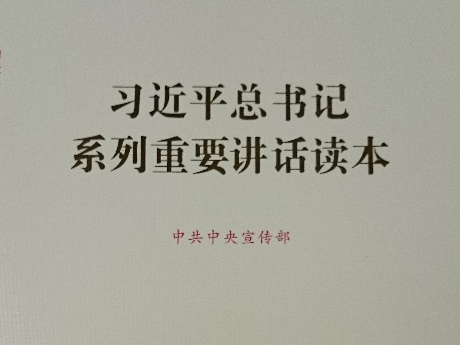 A book of statements from speeches by Xi Jinping, General Secretary of the Communist Party of China, published in 2014 and 2016 and widely distributed during Xi's administration.